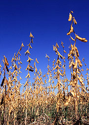 Soybeans ready for harvest.